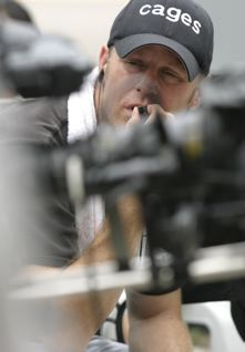 Director Graham Streeter on location in Singapore (2004)